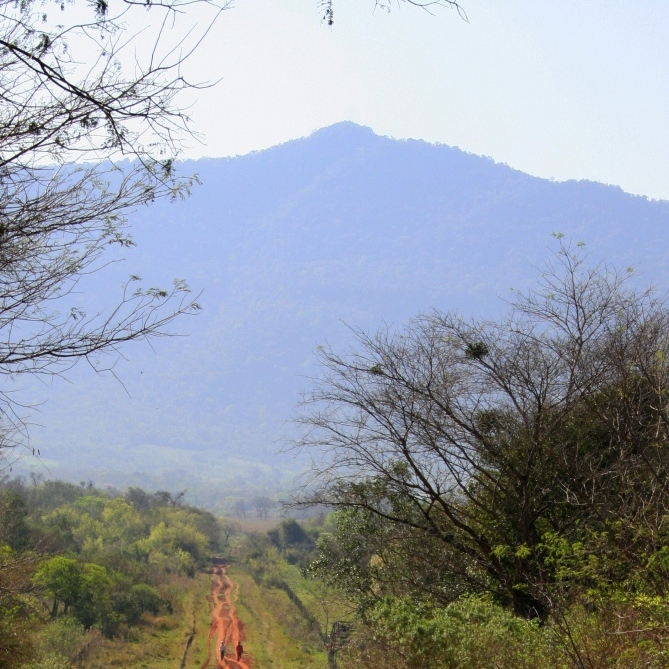 Mont Tres Kandu is the Paraguay's highest mountain, with a peak at 842 metres above sea level.